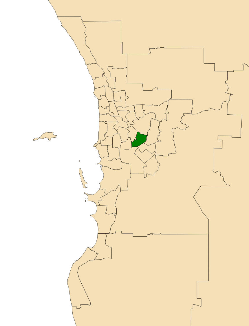 Location of the electoral district of Cannington in the Perth metropolitan area, Western Australia as of the 2017 WA state election.